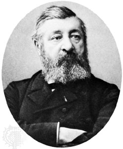 Léon Gautier. Émile Théodore Léon Gautier (8 August 1832-25 August 1897) was a French literary historian.